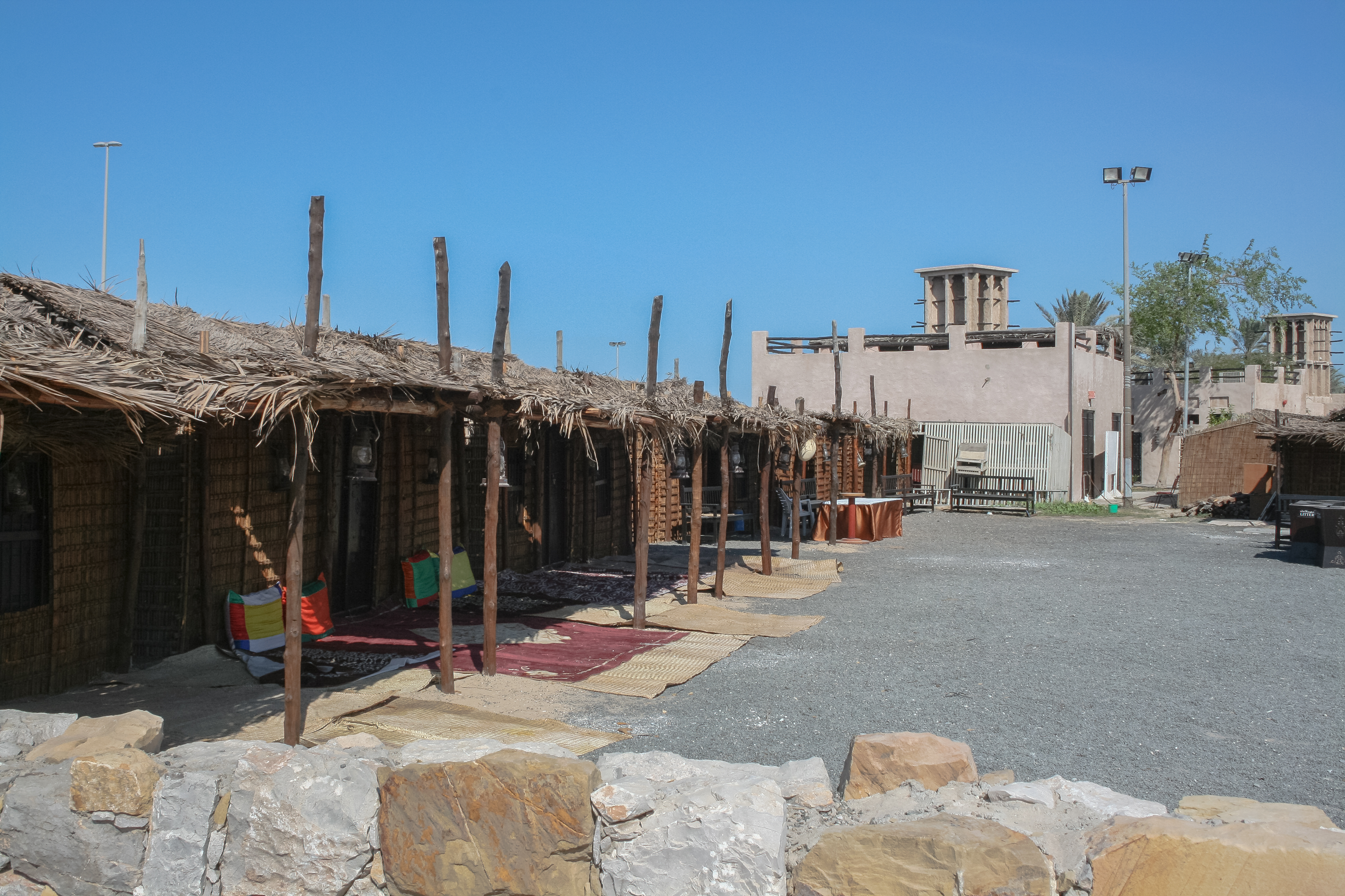 Heritage Village, Dubai, United Arab Emirates